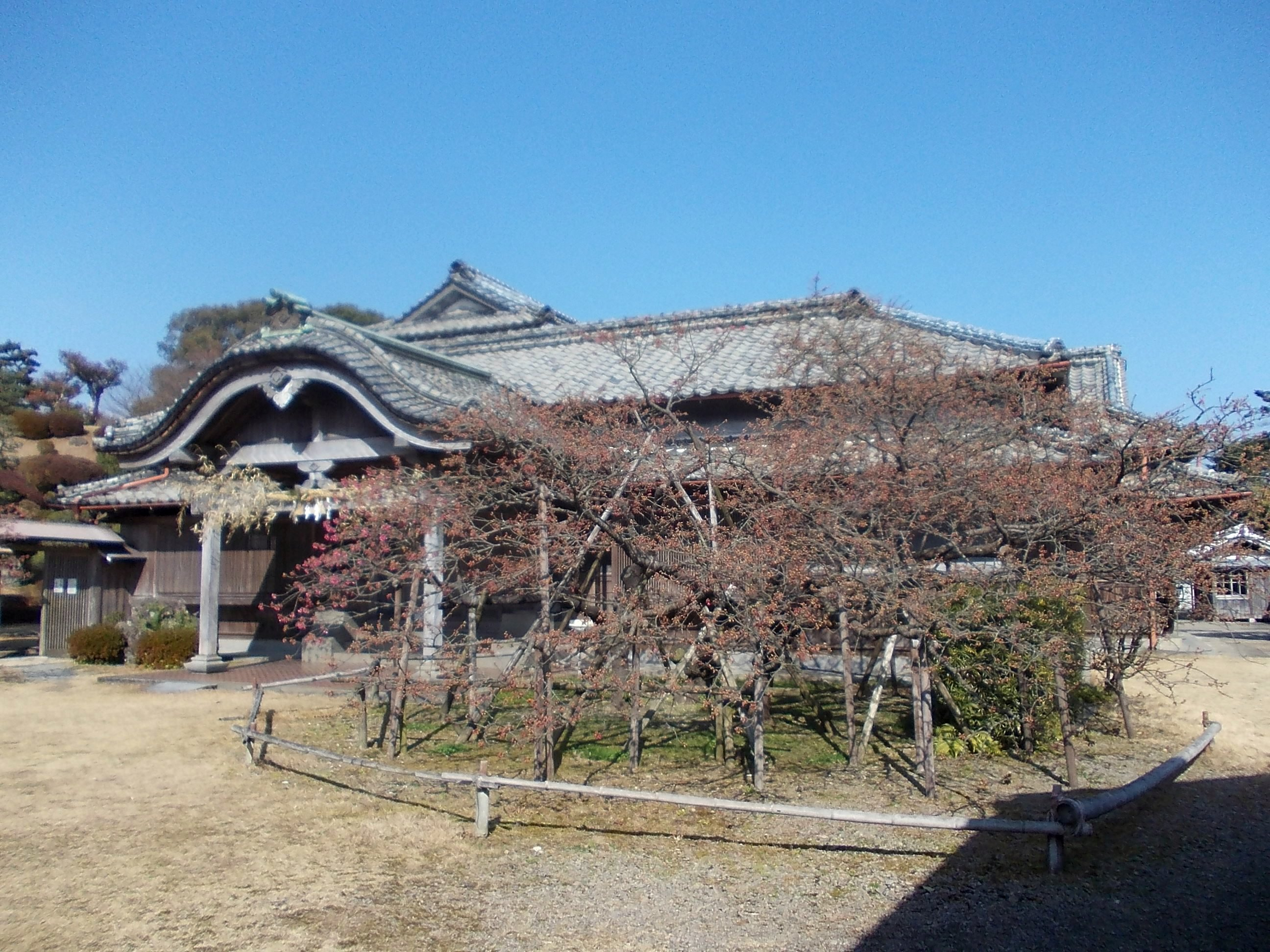 Kojirokuji Nabeshima Residence, Unzen, Nagasaki, Japan